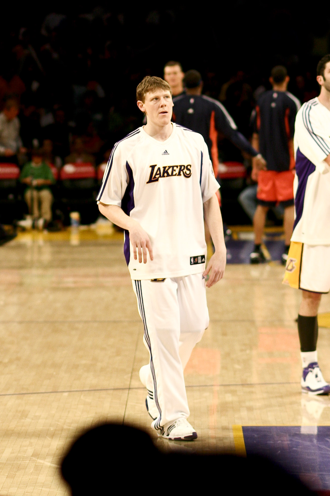 Coby Karl warming up during half time at a Warriors/Lakers game on March 23, 2008. Photographed by Asim Bharwani